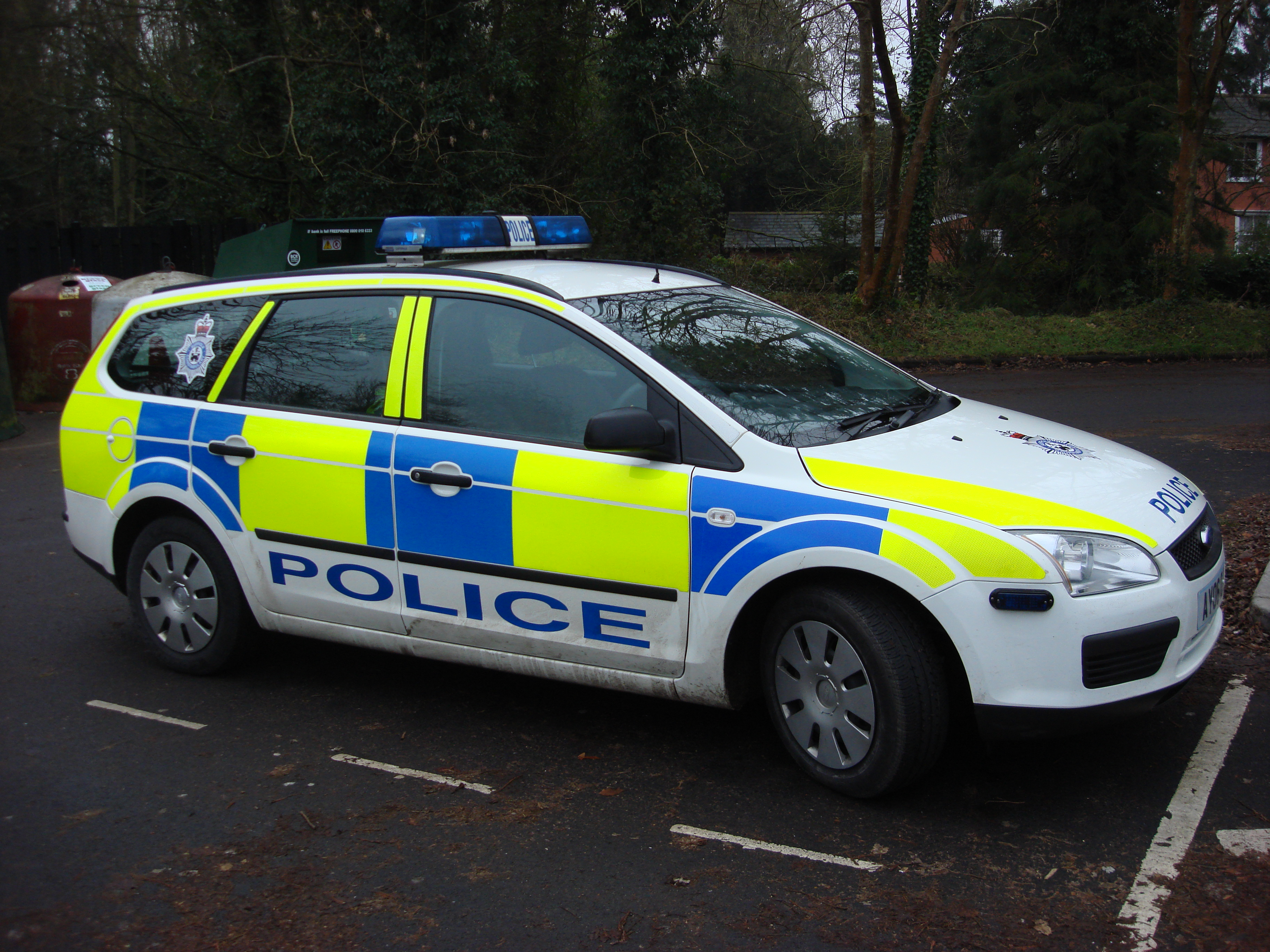 Suffolk Constabulary Ford Focus at Clare